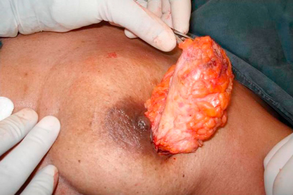 Excision of the upper inner quadrant lesion by a circum-areolar incision.